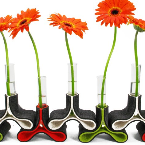 eweTUBE, colourful vases designed by Brandon Perhacs and made from 100% merino wool felt, glass tubes, and go together with black steel fasteners. Available in 3 bold colors, each paired with charcoal gray. It can be used with one tube in an upright position, or two tubes if the felt base is placed on its side. Vases can be combined in many creative configurations, forming minimal arrangements or elaborate center pieces.